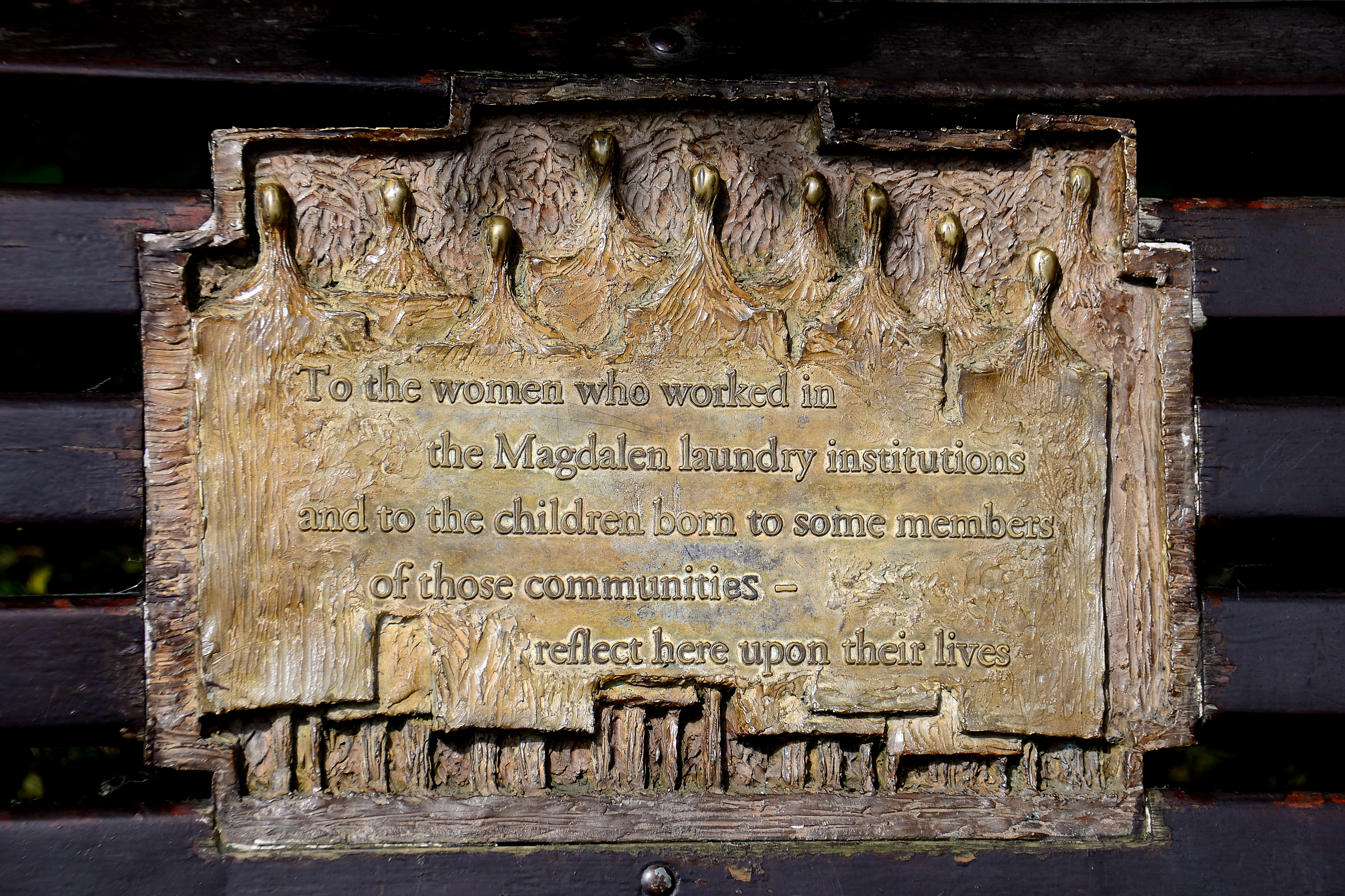 This is a close-up image of the seat memorial. The plate reads, "To the women who worked in the Magdalen[e] laundry institutions and to children borne to some members of those communities - relfect here upon their lives." St Stephen's Green Park, Dublin, Republic of Ireland.